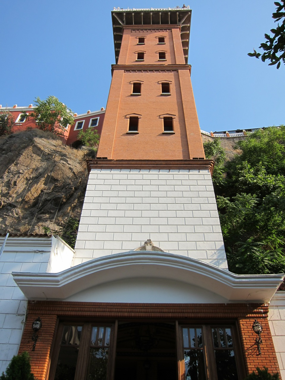 View of Asansor from the street level looking up.